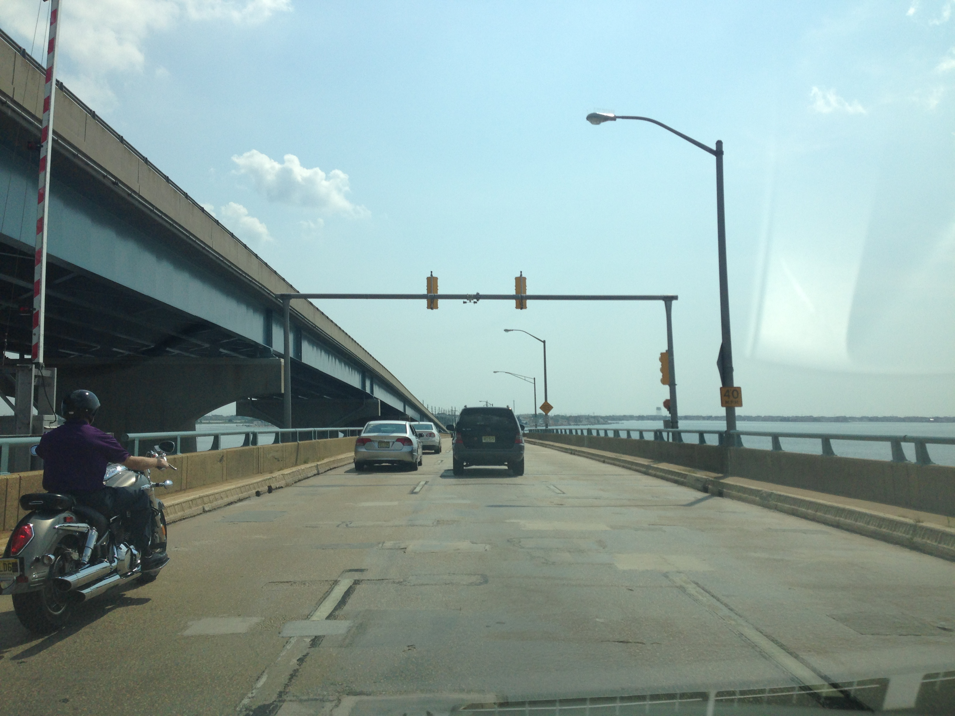 View east along New Jersey Route 37 on the Barnegat Bay Bridge at the drawbridge traffic light on August 21st 2013